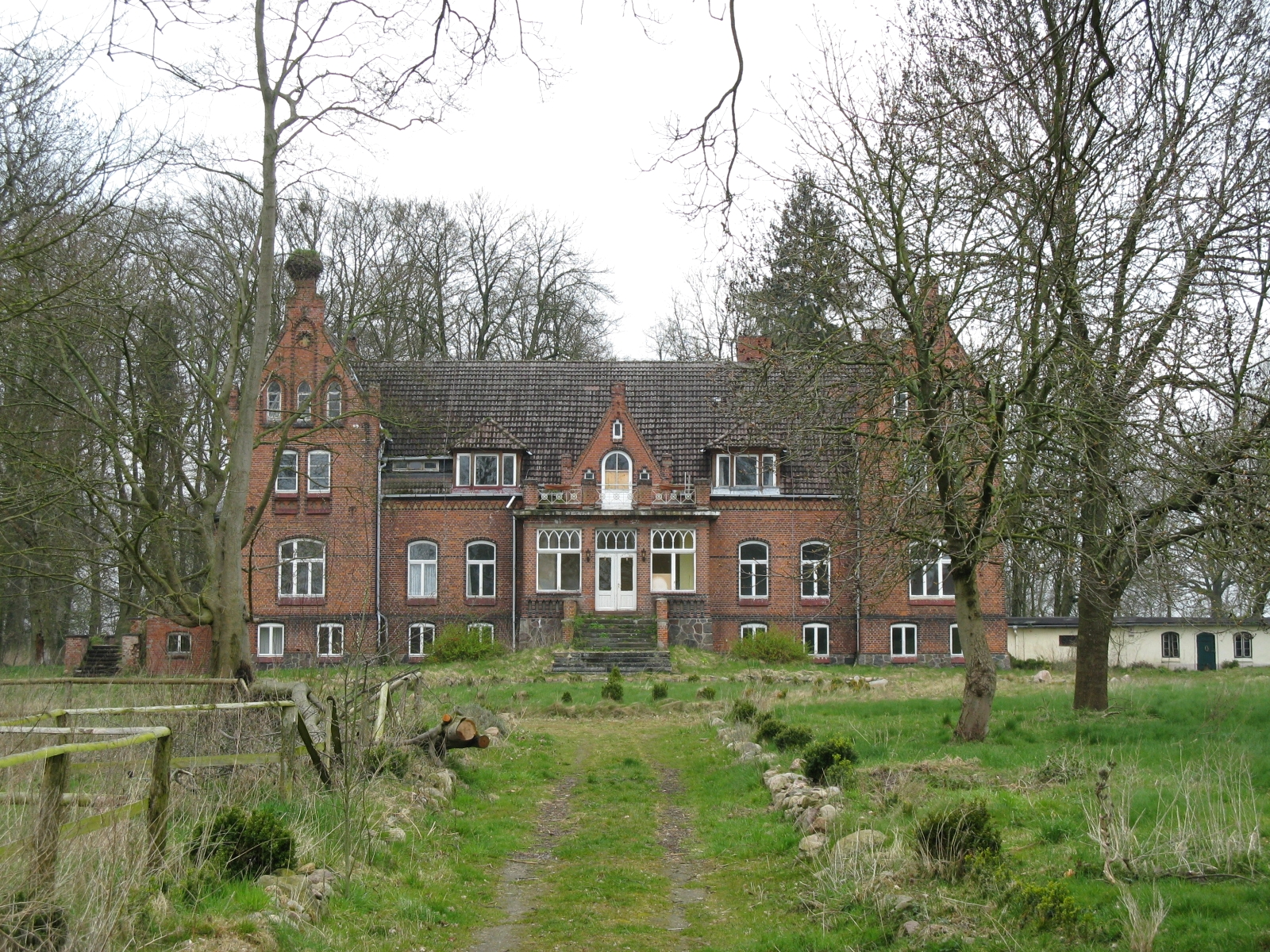 Manor house in Severin, district Ludwigslust-Parchim, Mecklenburg-Vorpommern, Germany